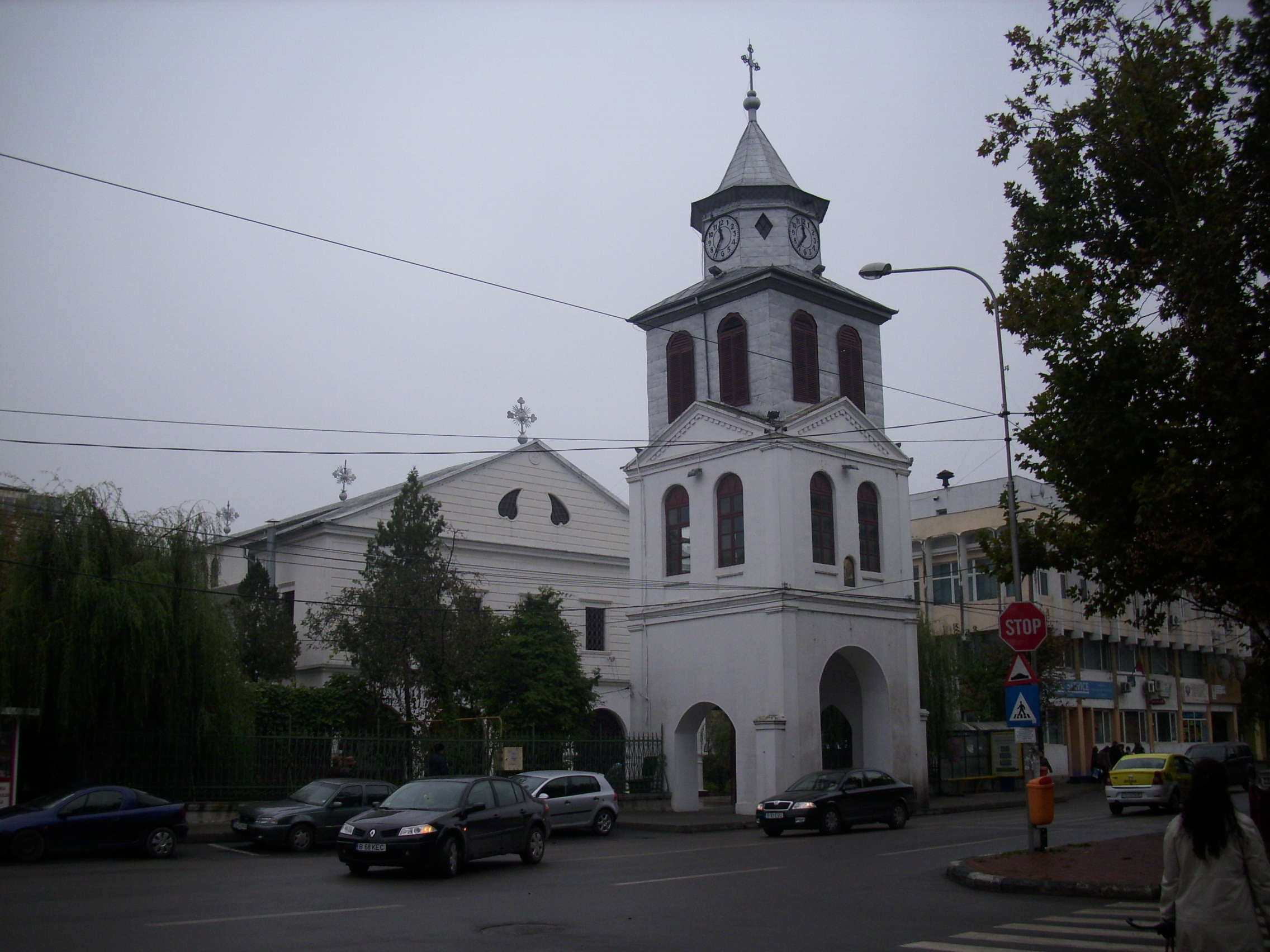 Tulcea - The Bulgarian church "Saint George"